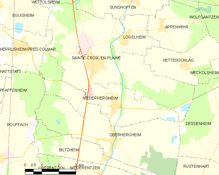 Map of French municipality